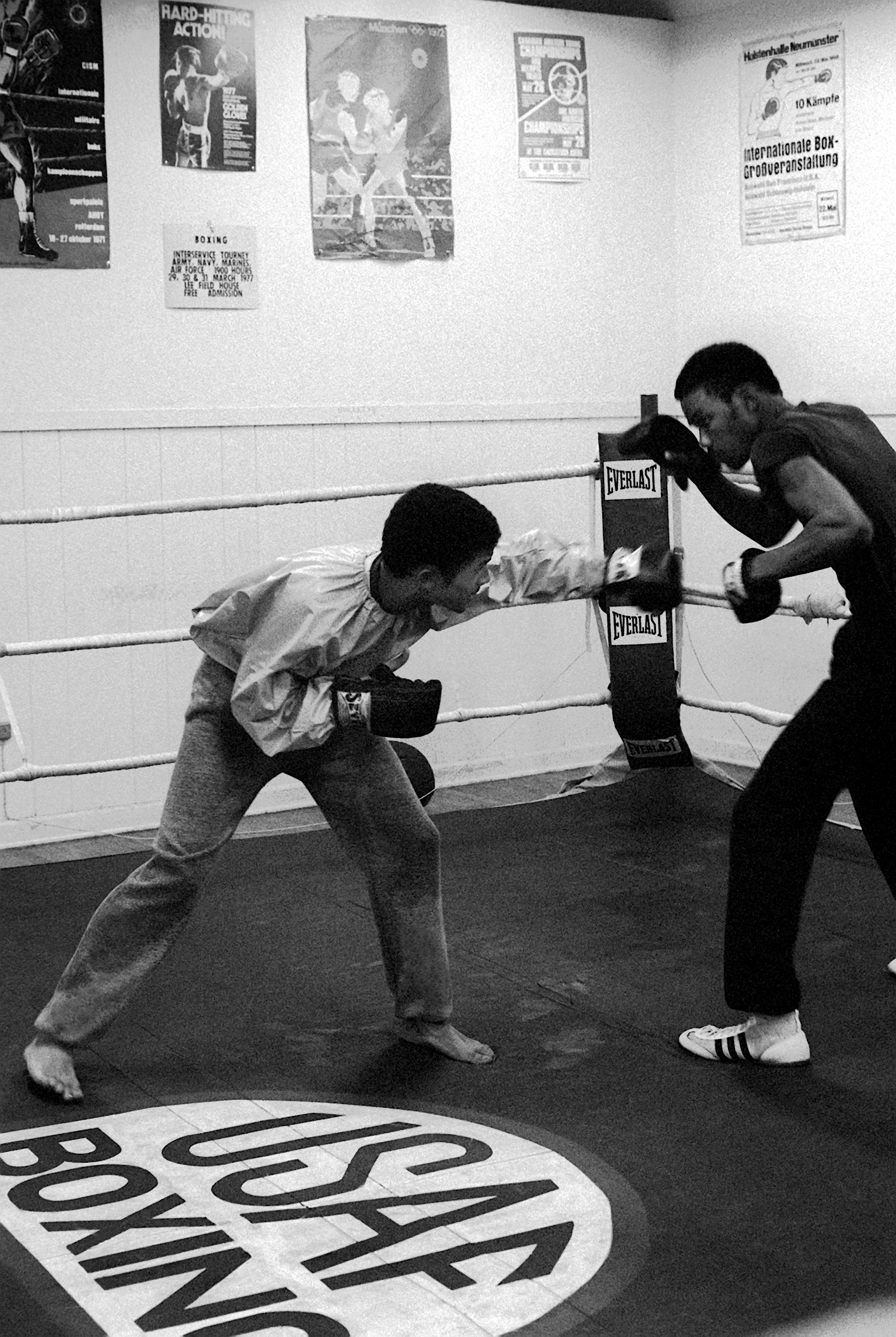 Sergeant Wilfredo Esperon, left, spars with Sergeant Kevin Wages at Kelly Air Force Base in the United States.